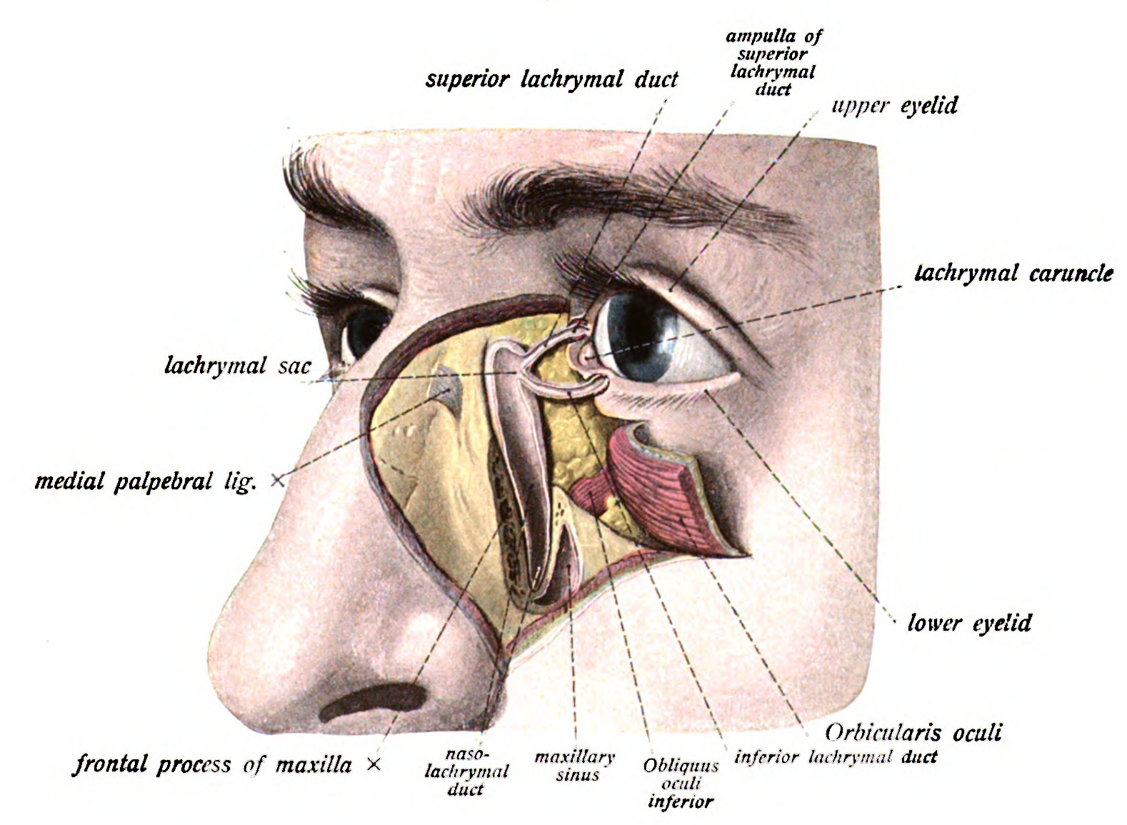 An anatomical illustration from the 1909 edition of Sobotta's Anatomy